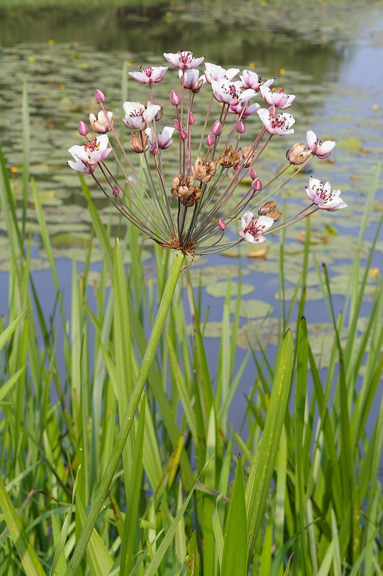 Inflorescence of Flowering Rush, Butomus umbellatus, at the banks of a natural pond.